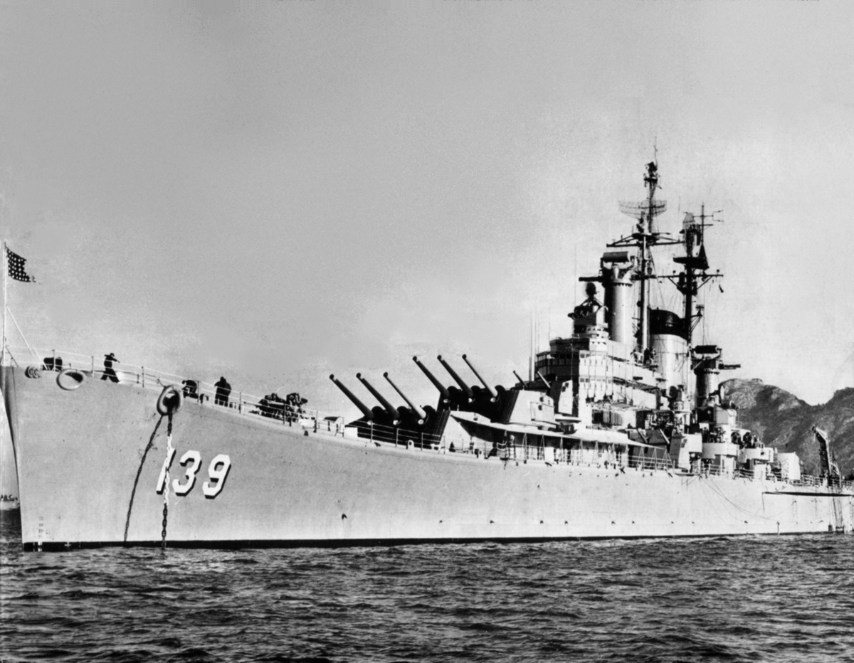 The U.S. Navy heavy cruiser USS Salem (CA-139) at anchor while serving as flagship of the U.S. 6th Fleet.